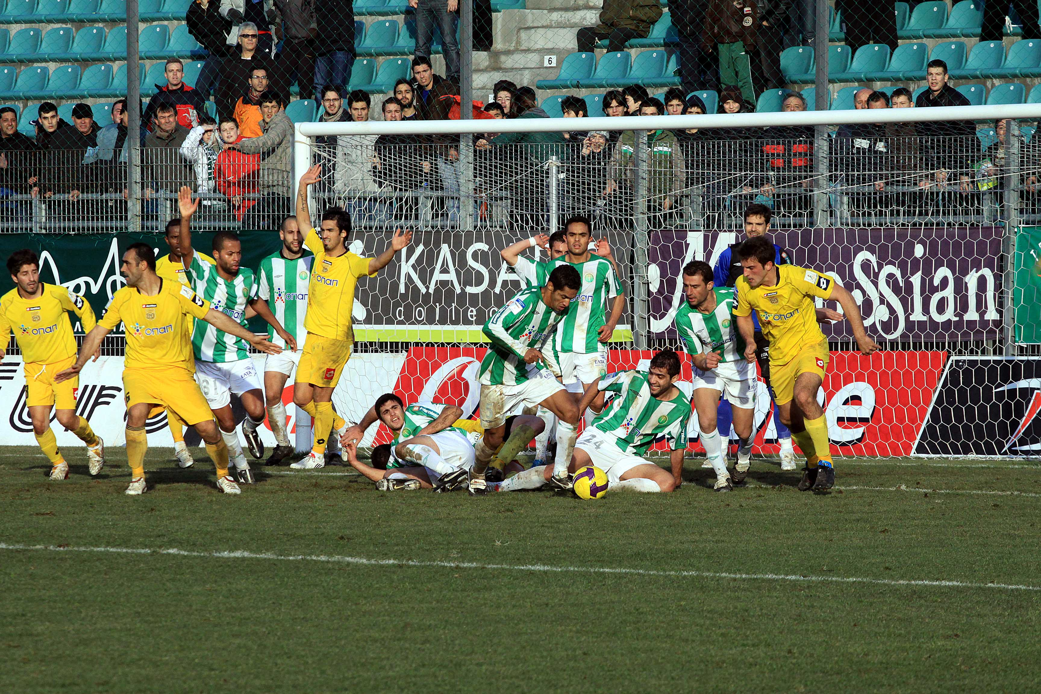 Panthrakikos-Ergotelis 3-2, 2009-2010 January 31, 2010